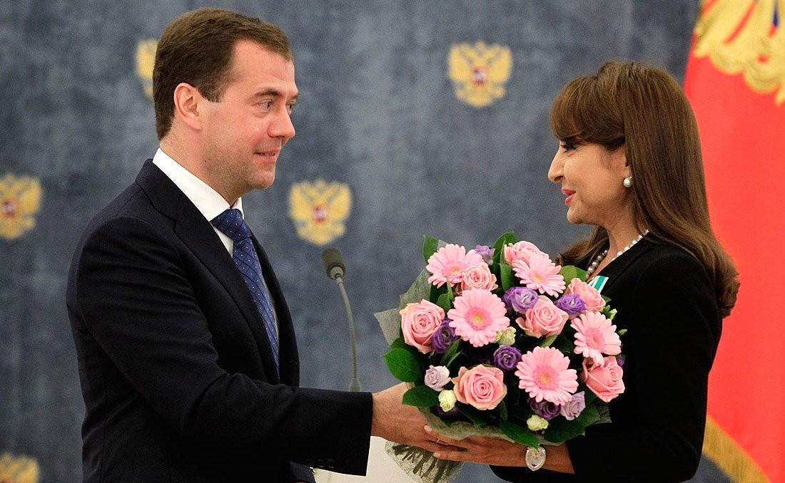 Presenting Russian state decorations to foreign citizens. Rector of Baku branch of Moscow State University Nargiz Pashayeva Azerbaijan receives the Order of Friendship